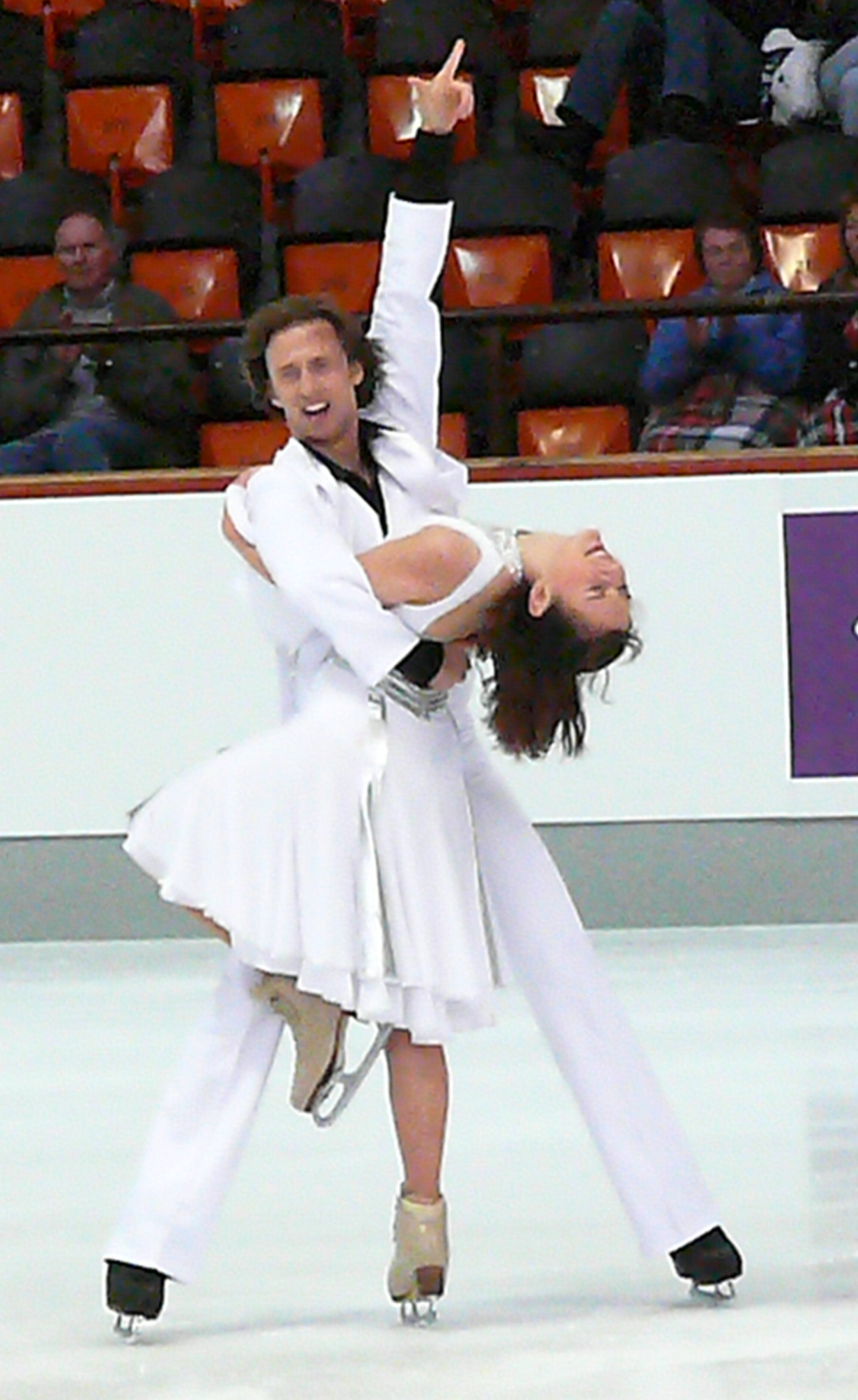 Barbora Silna and Dmitri Matsjuk (AUT) at the free dance of the Nebelhorn Trophy 2007 in Oberstdorf/Germany